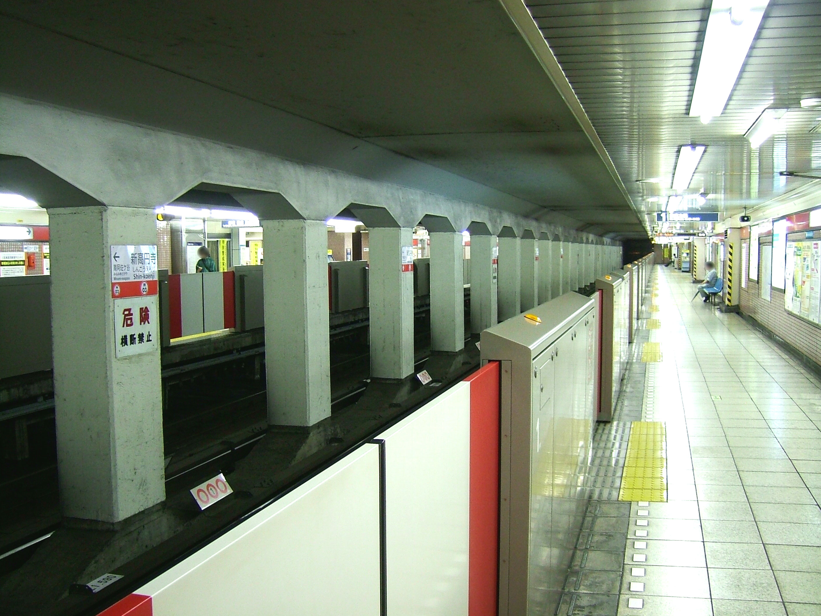 Shin-Kōenji Station platform (Tokyo Metro Marunouchi Line)